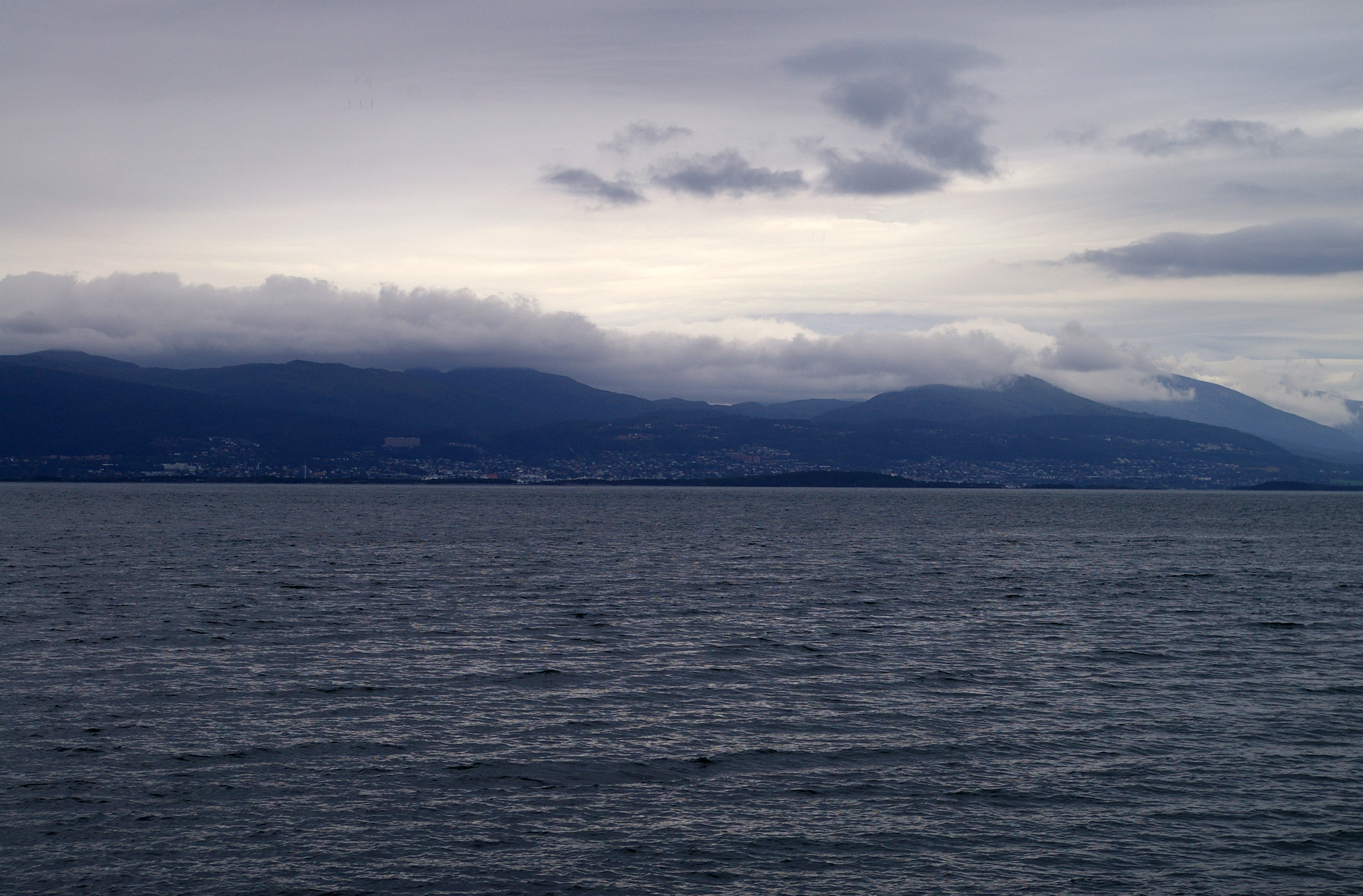 View towards Molde from Moldefjorden, Møre og Romsdal, Norway